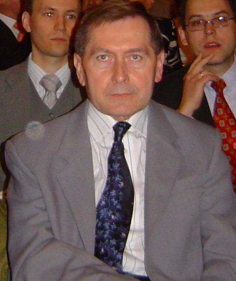 Prof Bohdan Lapis - polish historian